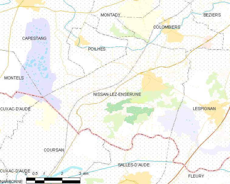 Map commune FR insee code 34183.png - Nissan-lez-Enserune